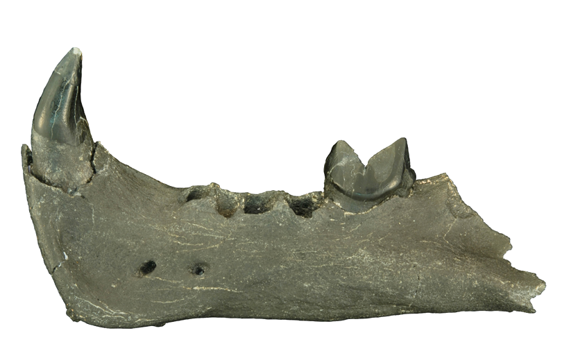 Rhizosmilodon fiteae - proposed holotype UF 124634